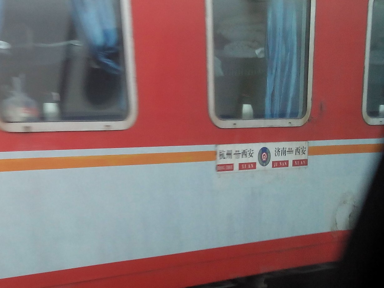 1151-1152-1153-1154 Infoboard in 201506